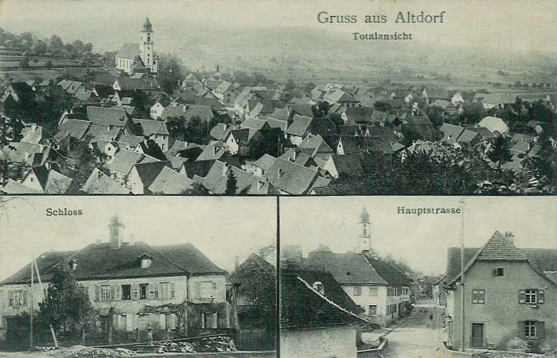 Postcard of Altdorf (Elsass) with castle and main street